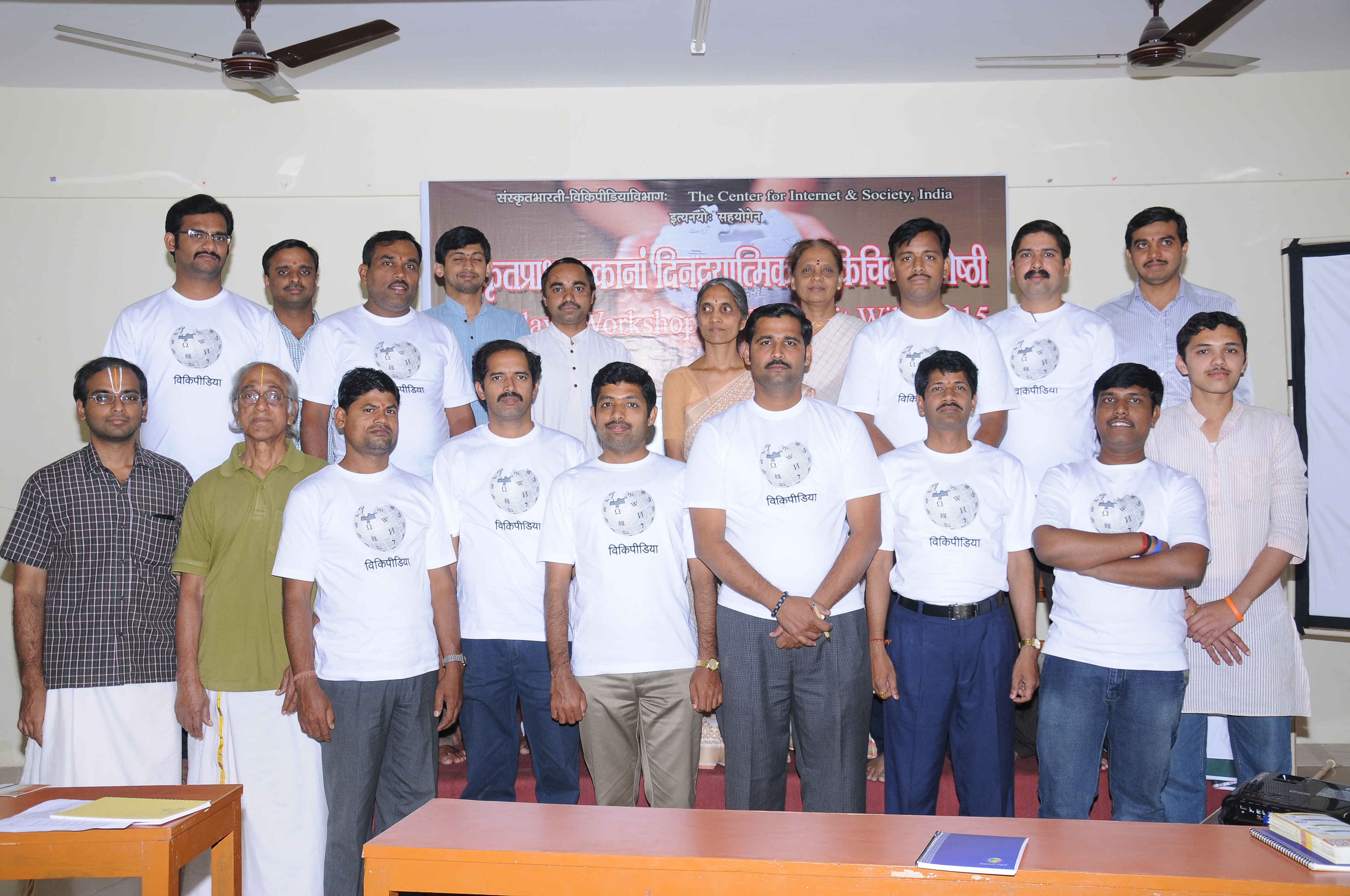 Sanskrit Wiki group picture